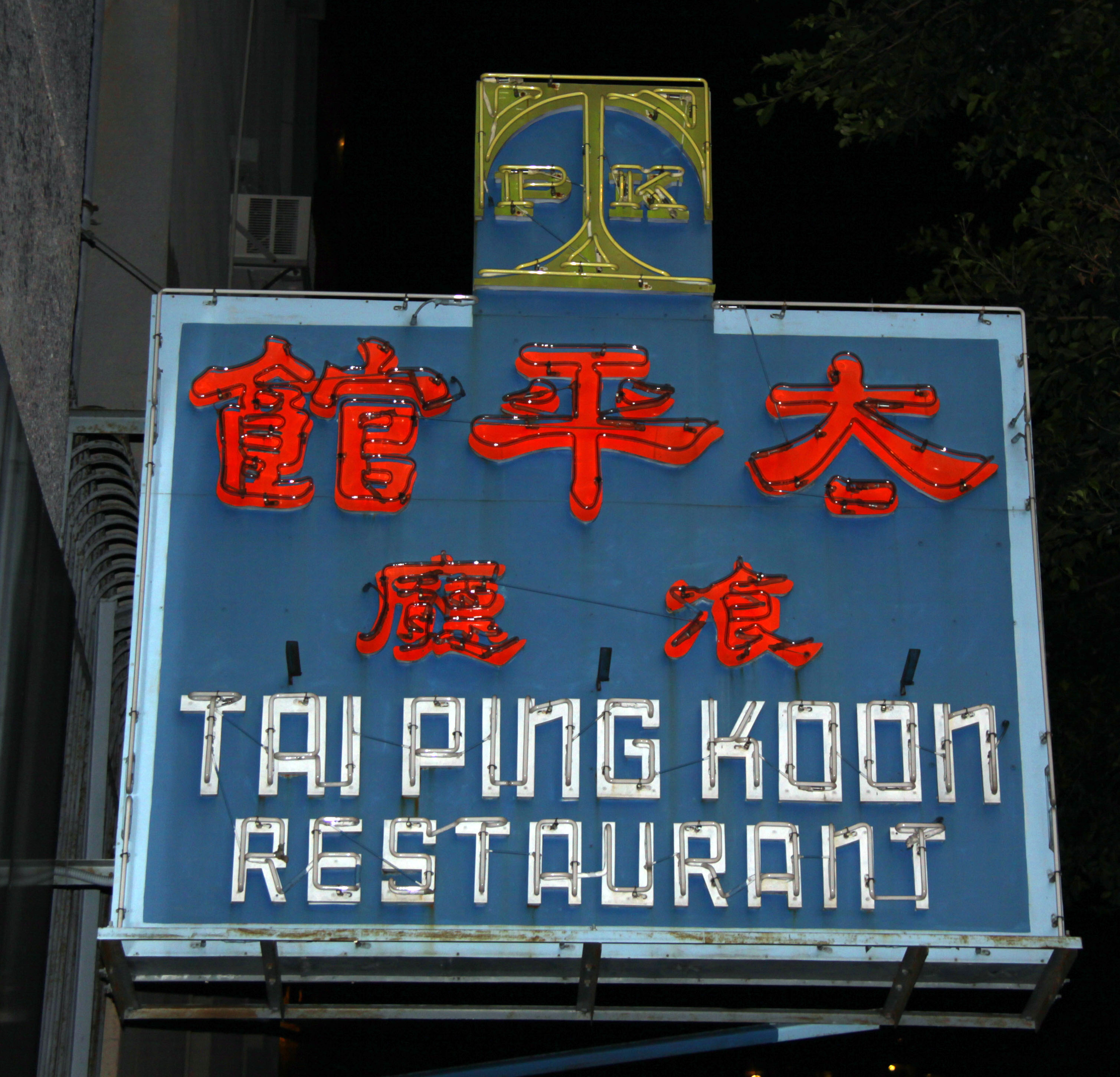 Tai Ping Koon in Jordan, Hong Kong